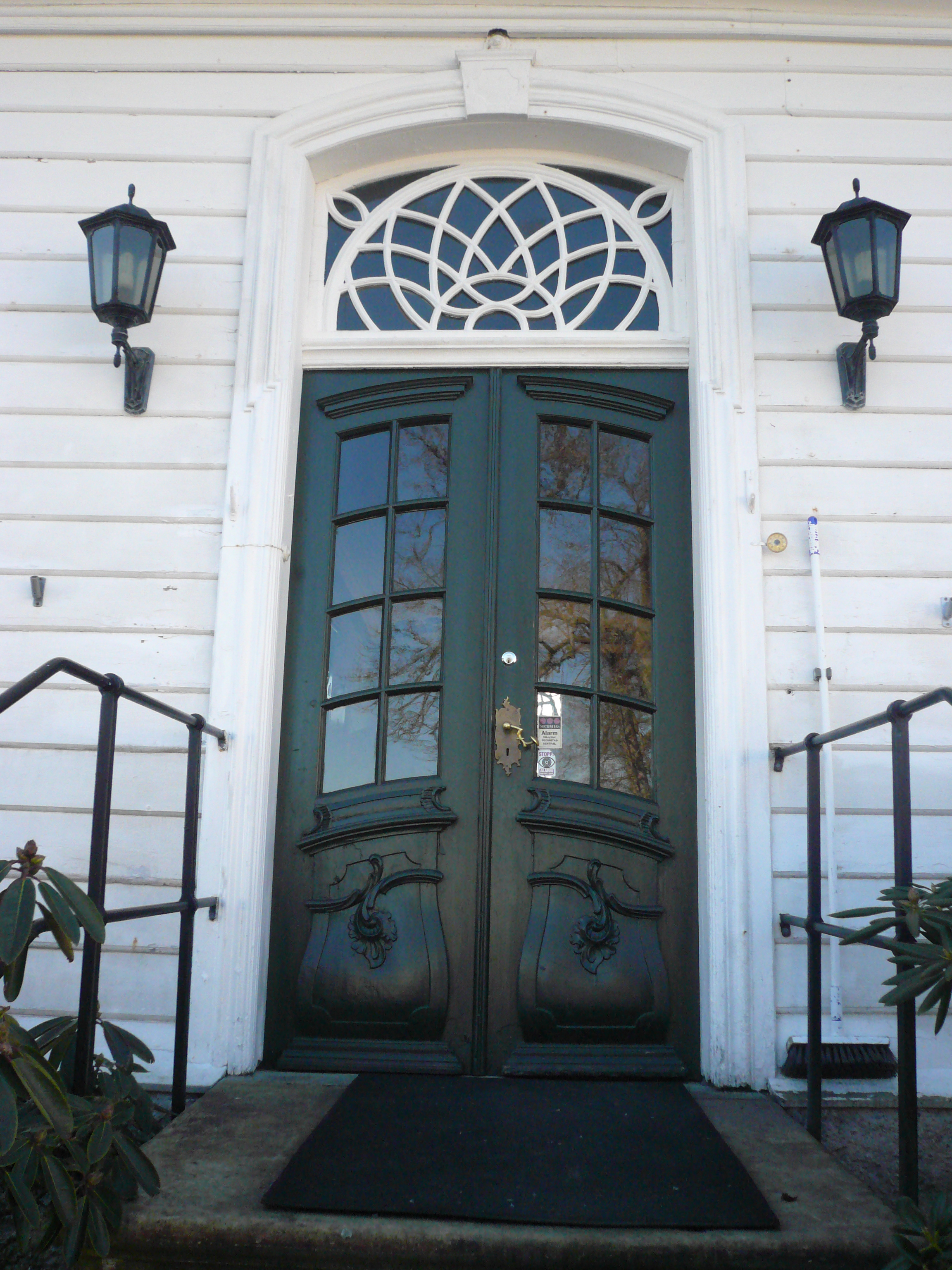 Store Milde, main entrance.